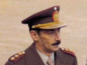 Argentine dictator Jorge Rafael Videla at the opening of 1976's "Exposición Rural" in Palermo, Buenos Aires.